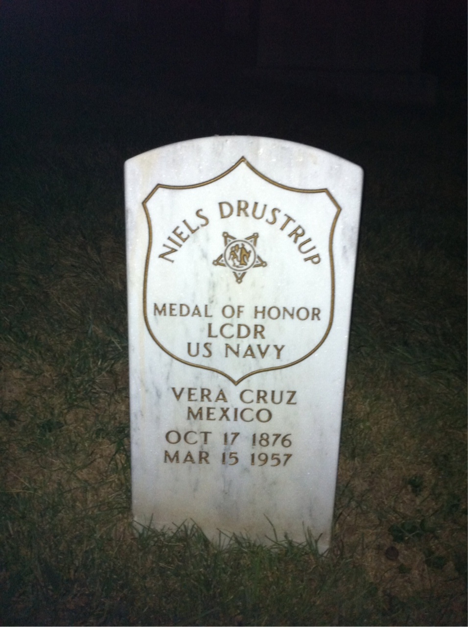 Grave of Niels Drustrup at Arlington National Cemetery